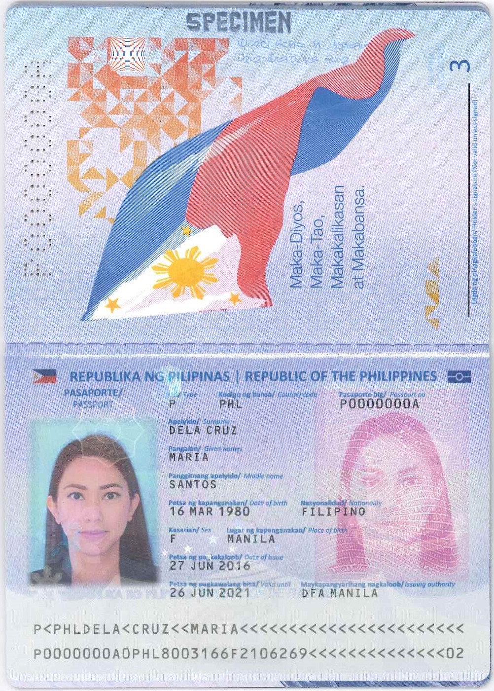 The data page of the new Philippine passport released on August 15, 2016.